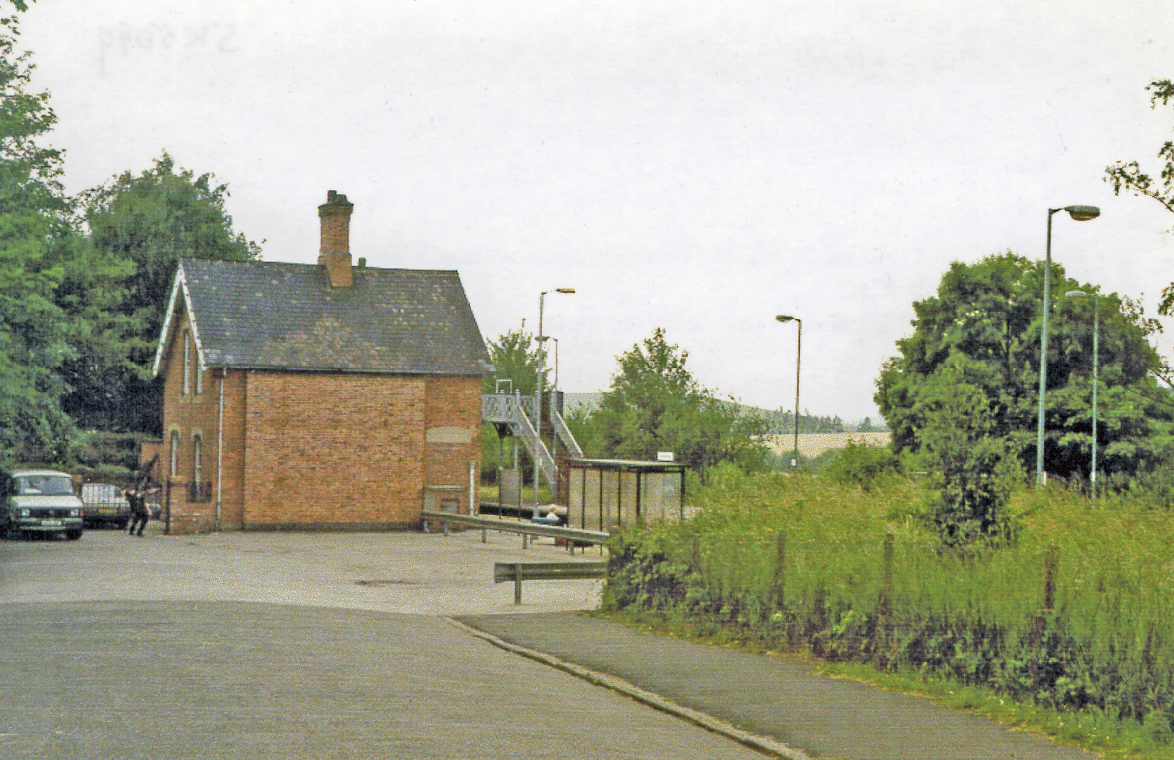 Conisbrough station, exterior 1992. View westward, towards Mexborough, Rotherham and Sheffield: ex-Great Central (South Yorkshire section), Sheffield - Doncaster etc. main line.